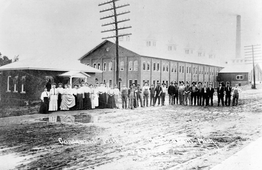 Michigan Condensed Milk Factory, Mt Pleasant Mi NRHP 83000853